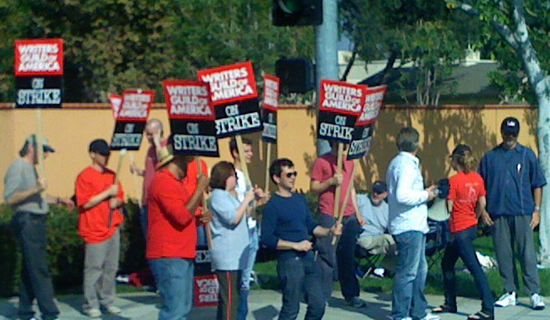 Members of the west Writers Guild of America strike by the Walt Disney lot in California.